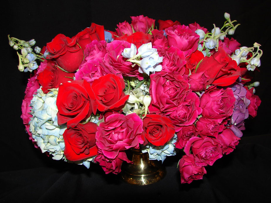 The floral arrangements for the 2009 presidential inaugural luncheon, designed by JLB Floral of Alexandria, Virginia, will feature Red Charlotte roses, Rouge Basier roses, Hot Lady roses, a floribunda rose called Hot Majolica, hydrangea in shades of blues and purples, and light blue delphinium in a footed brass compote. After the luncheon, the floral arrangements will be given to the Walter Reed Army Medical Center.